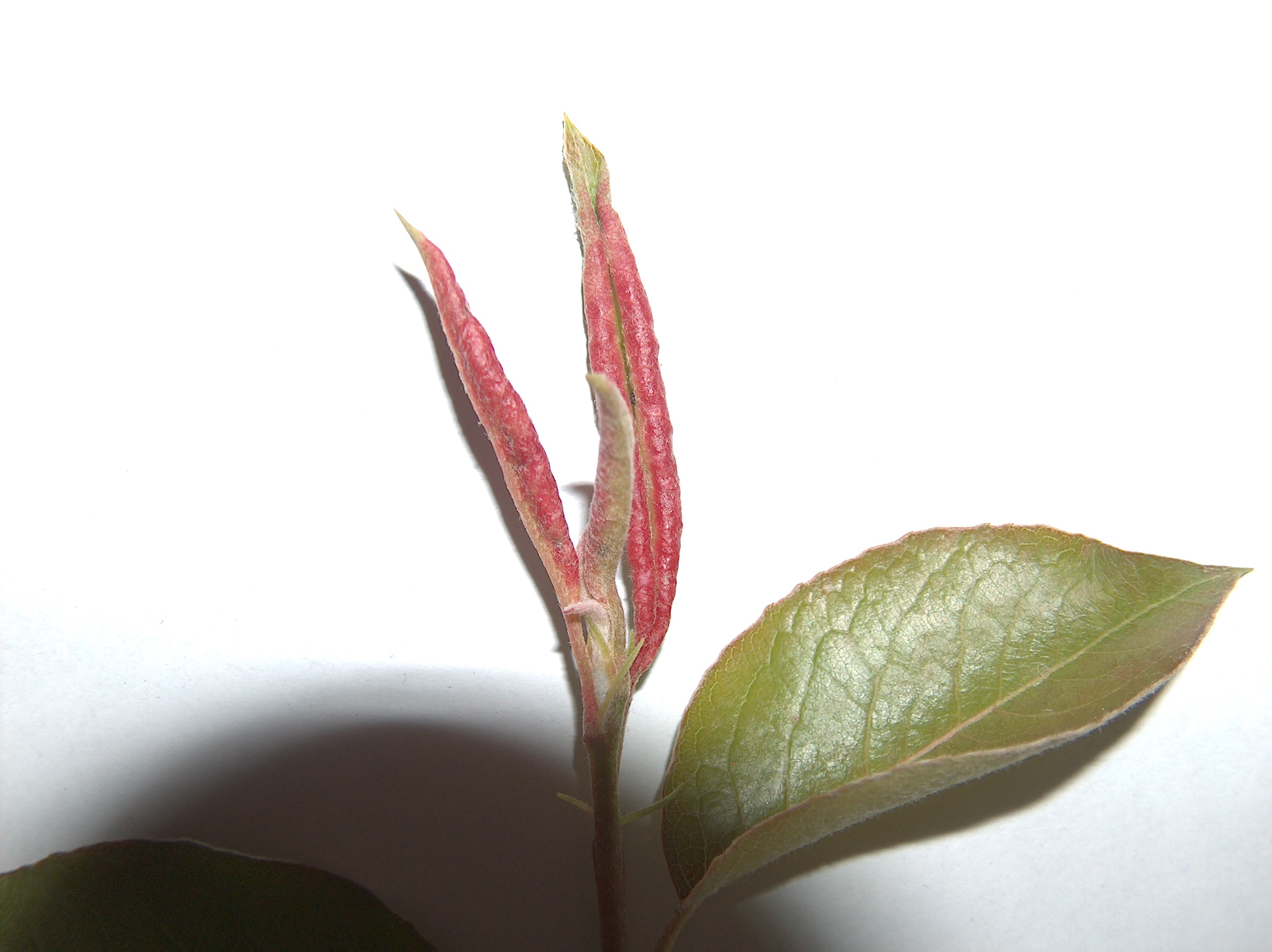 Damage by gall midges (Dasineura pyri) on pear leaves